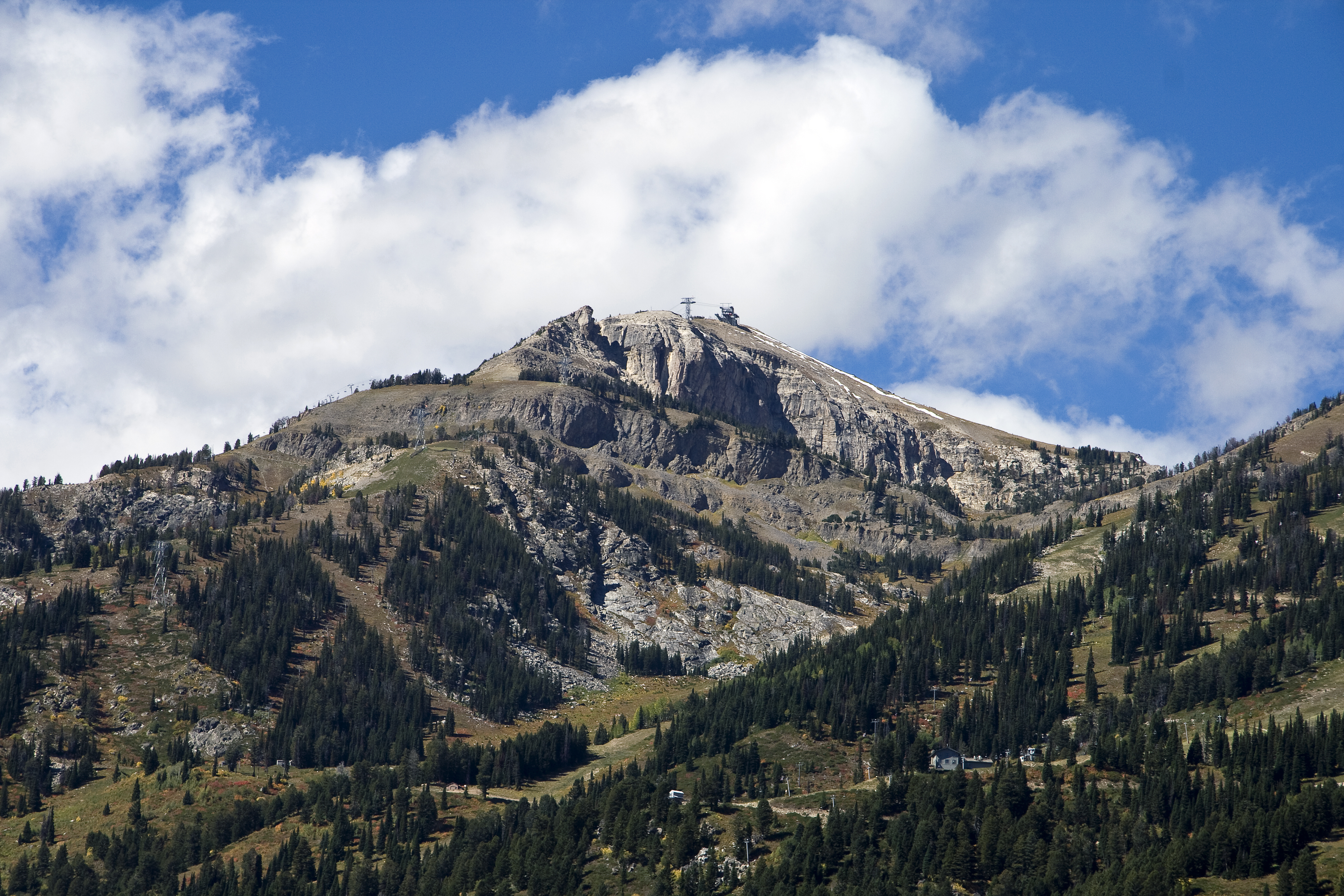 Rendezvous Mountain, near Jackson Wyoming, USA. Aerial tram and ski lifts visible.